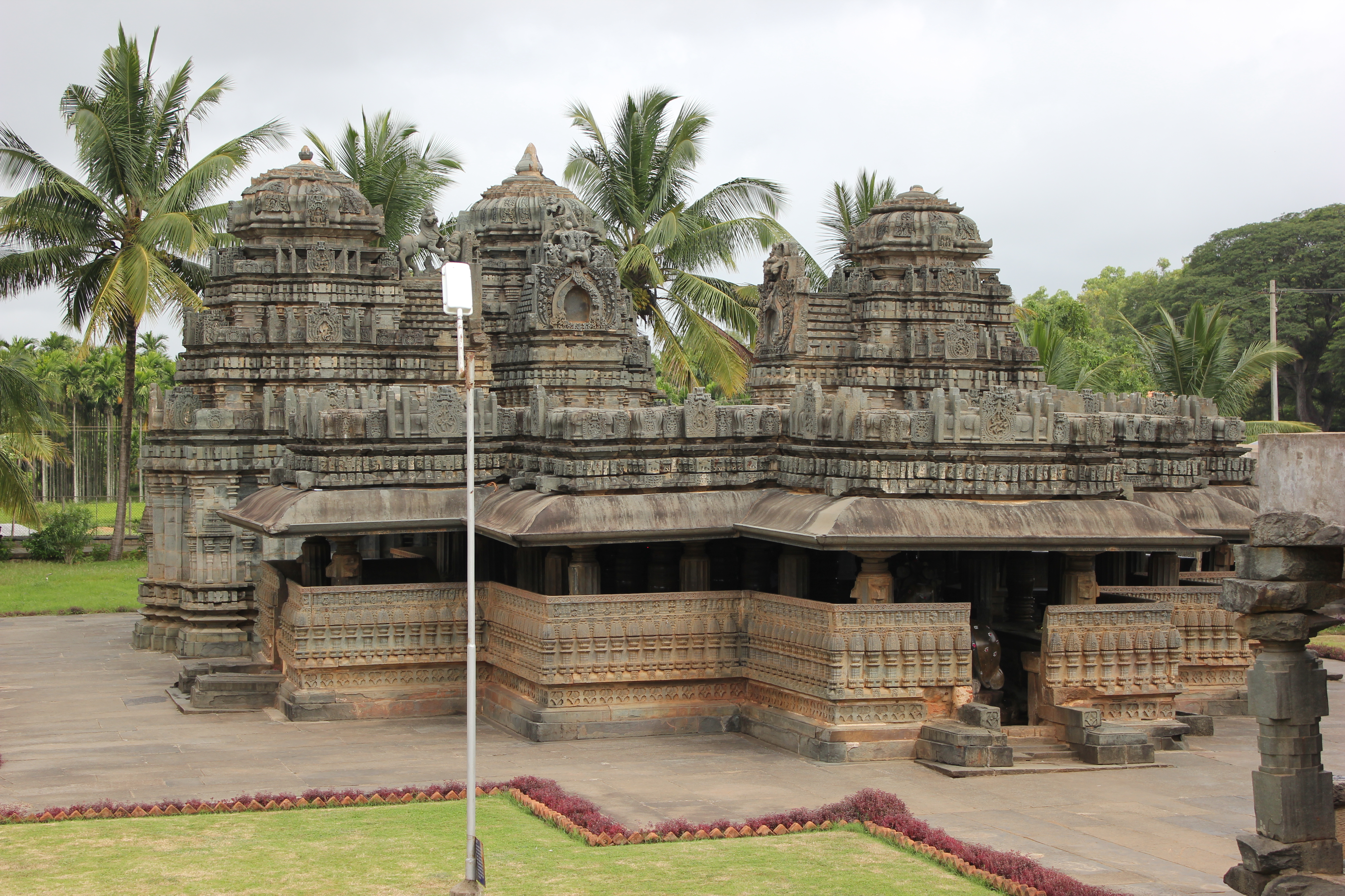 This photograph was taken by me at the Kedareshvara temple (also spelt Kedaresvara or Kedareshwara) in Balligavi (also called variously as Belgami, Belligave, Balligamve and Ballipura in ancient inscriptions) in the Shimoga district of Karnataka state, India. The temple was built in the late 11th century by the Western Chalukya Empire rulers with architectural updates into the first half of 12th century during the rule of Hoysala Empire.